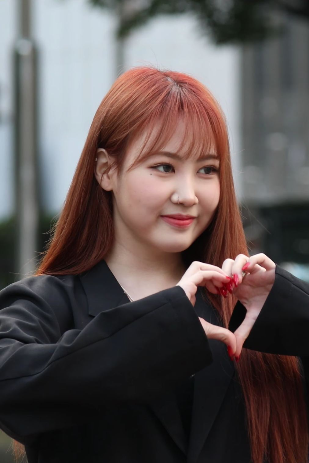 Park Ji-min going to a Music Bank recording in September 2018.